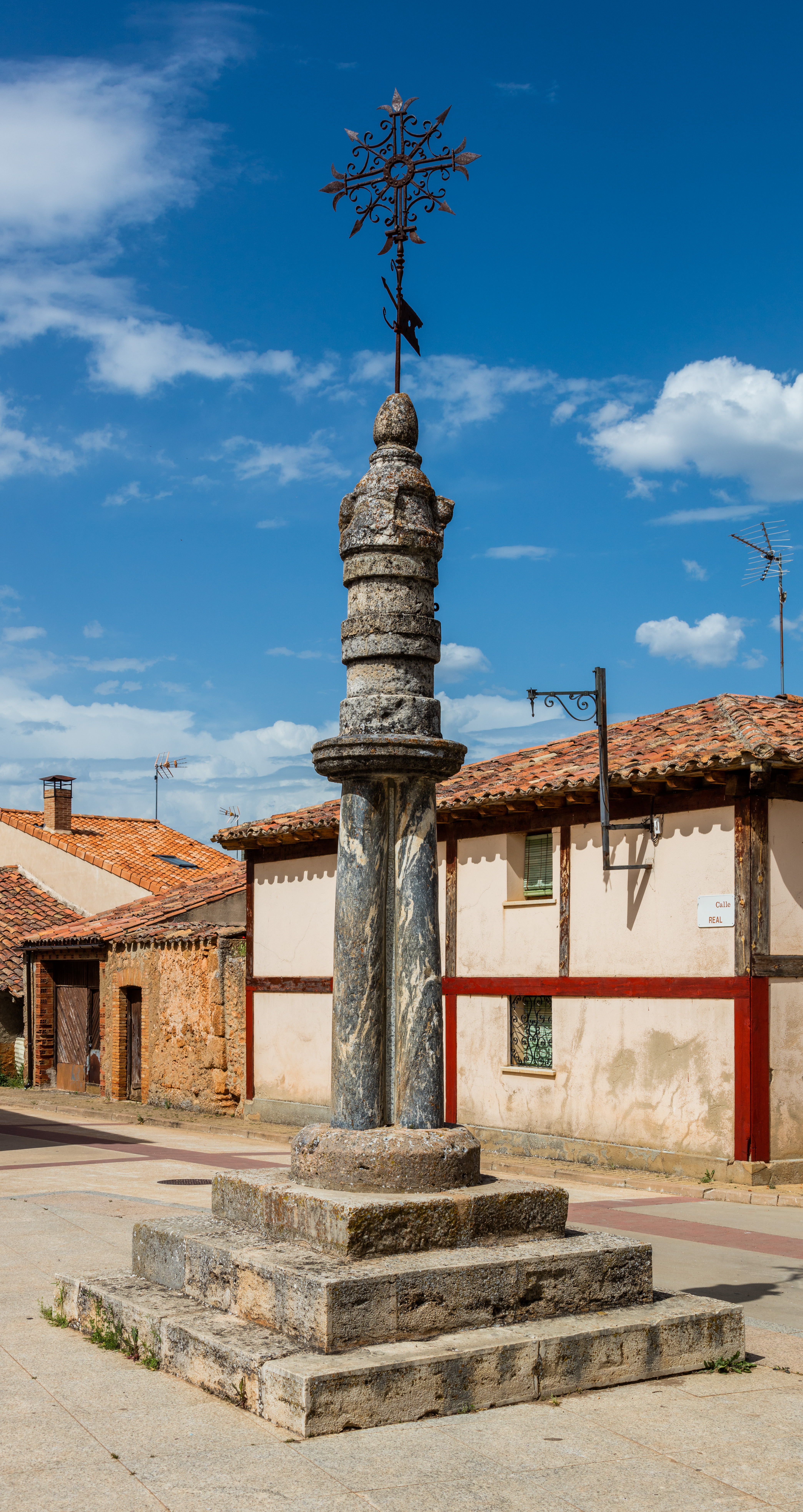 Pillory of Rioseco de Soria, Soria, Spain